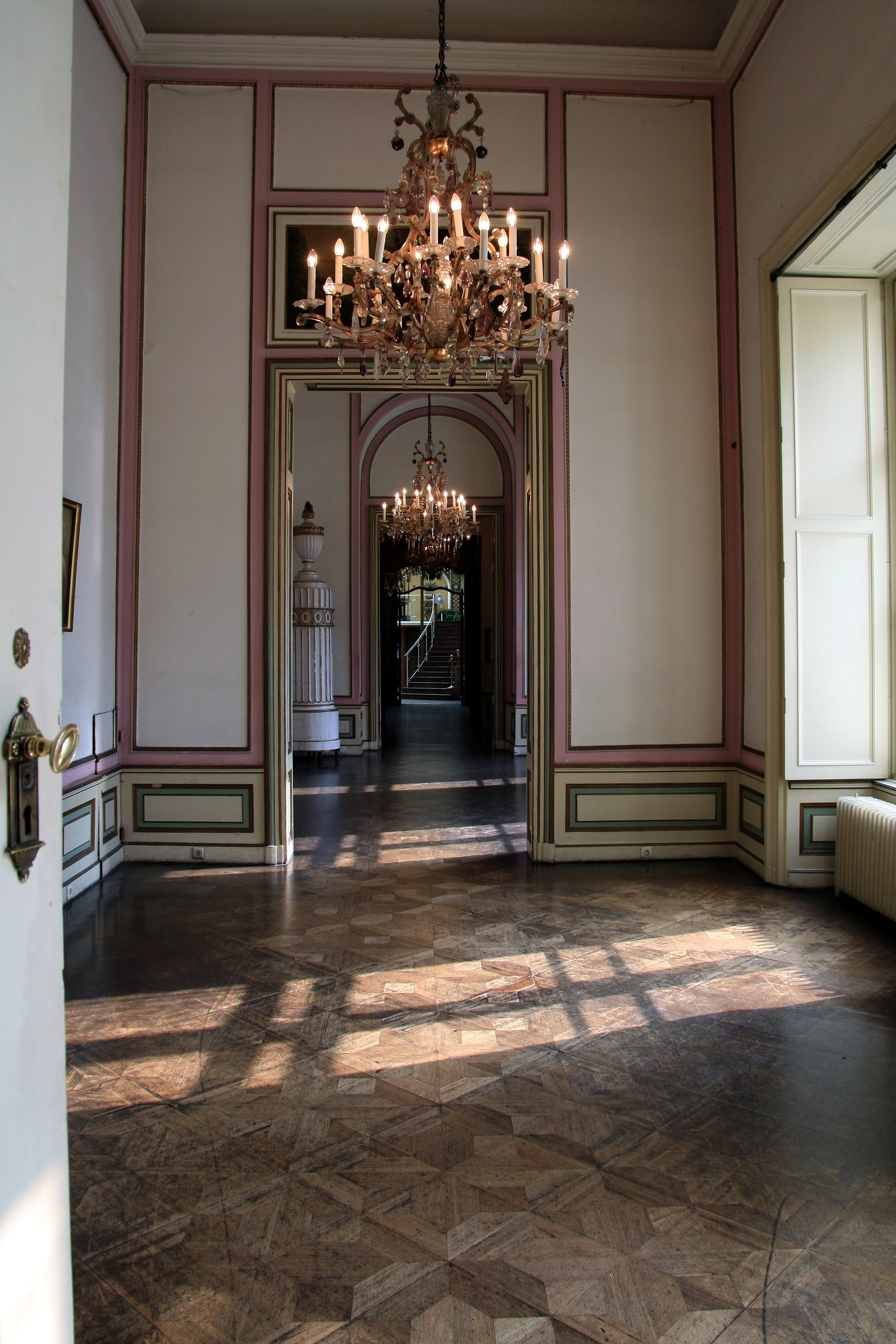 Gluck Gallery in Palais Auersperg, Vienna.